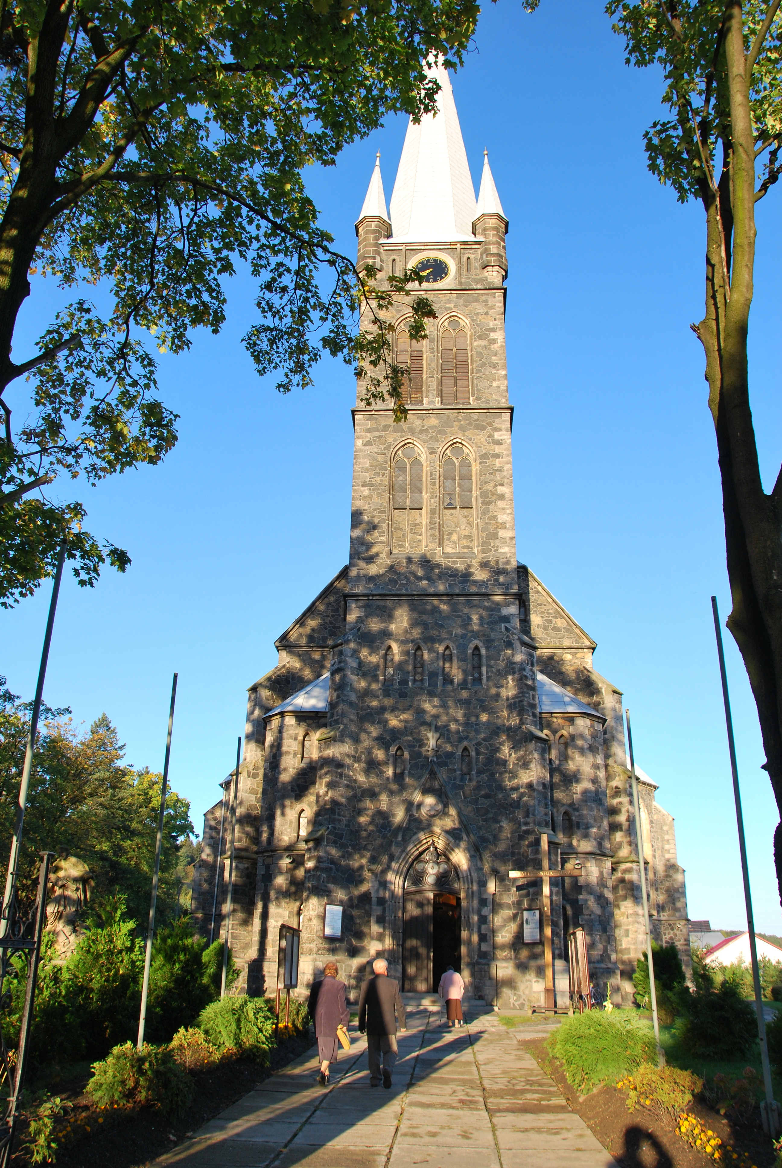 Catholic church in Złoty Stok